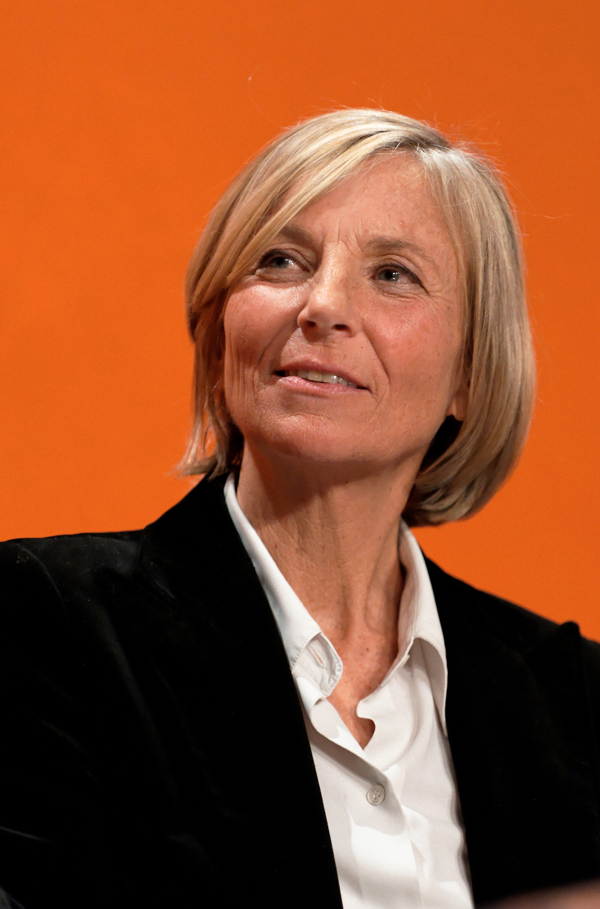 Marielle de Sarnez. Political rally on March 5, 2008 at the Mutualité (Paris) for Marielle de Sarnez's campaign in the 2008 Paris town elections.